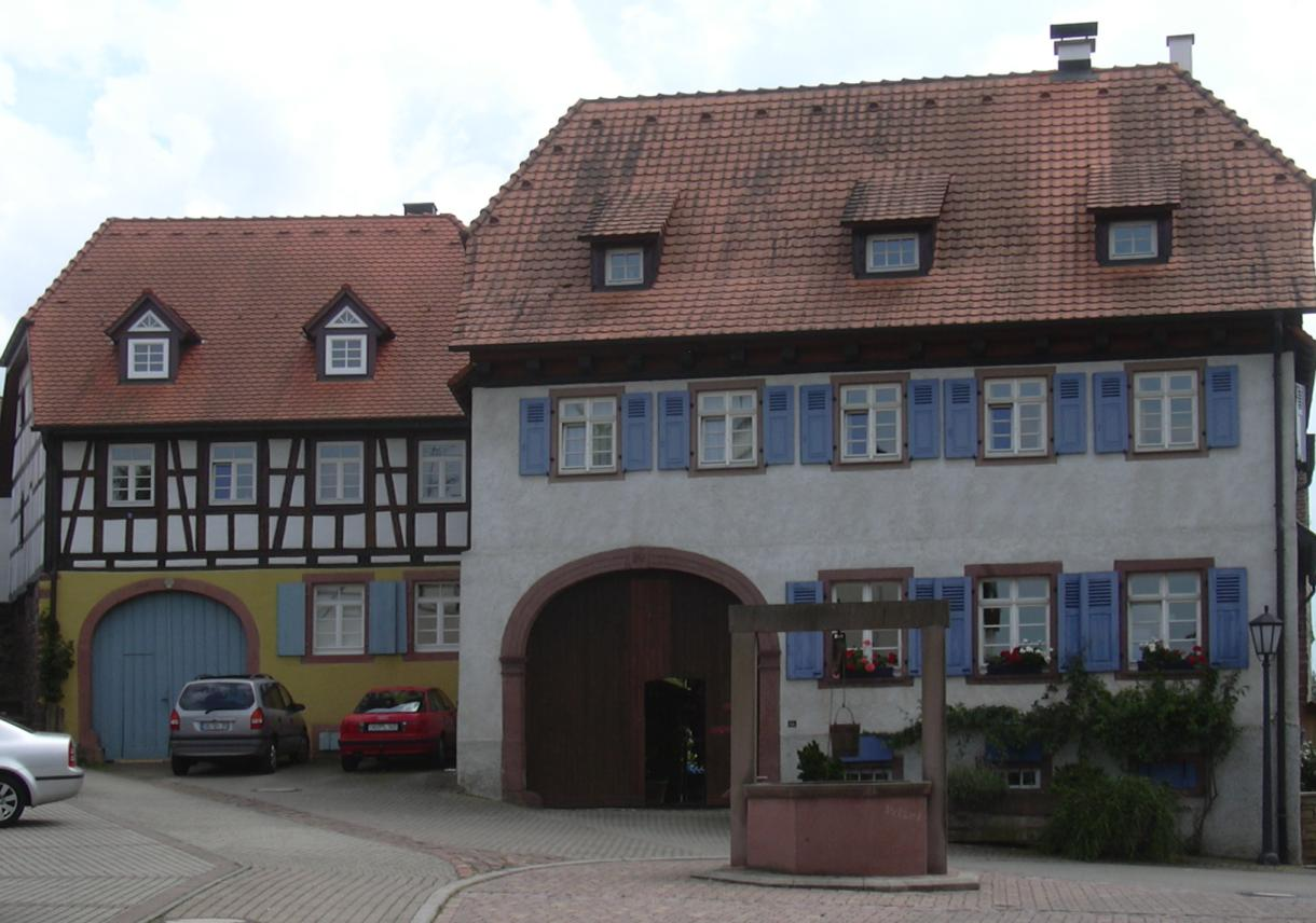 House and well in Mahlberg, Germany